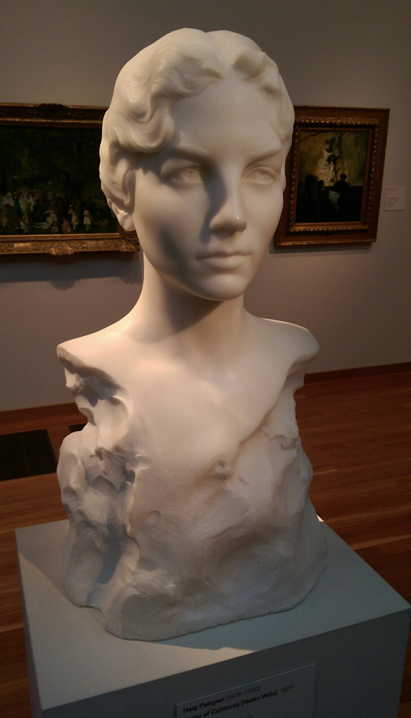 A 1927 portrait sculpture of Helen Wills titled "Helen of California" by Haig Patinkian, on display at the de Young Museum in San Francisco. Photo by Jim Heaphy.